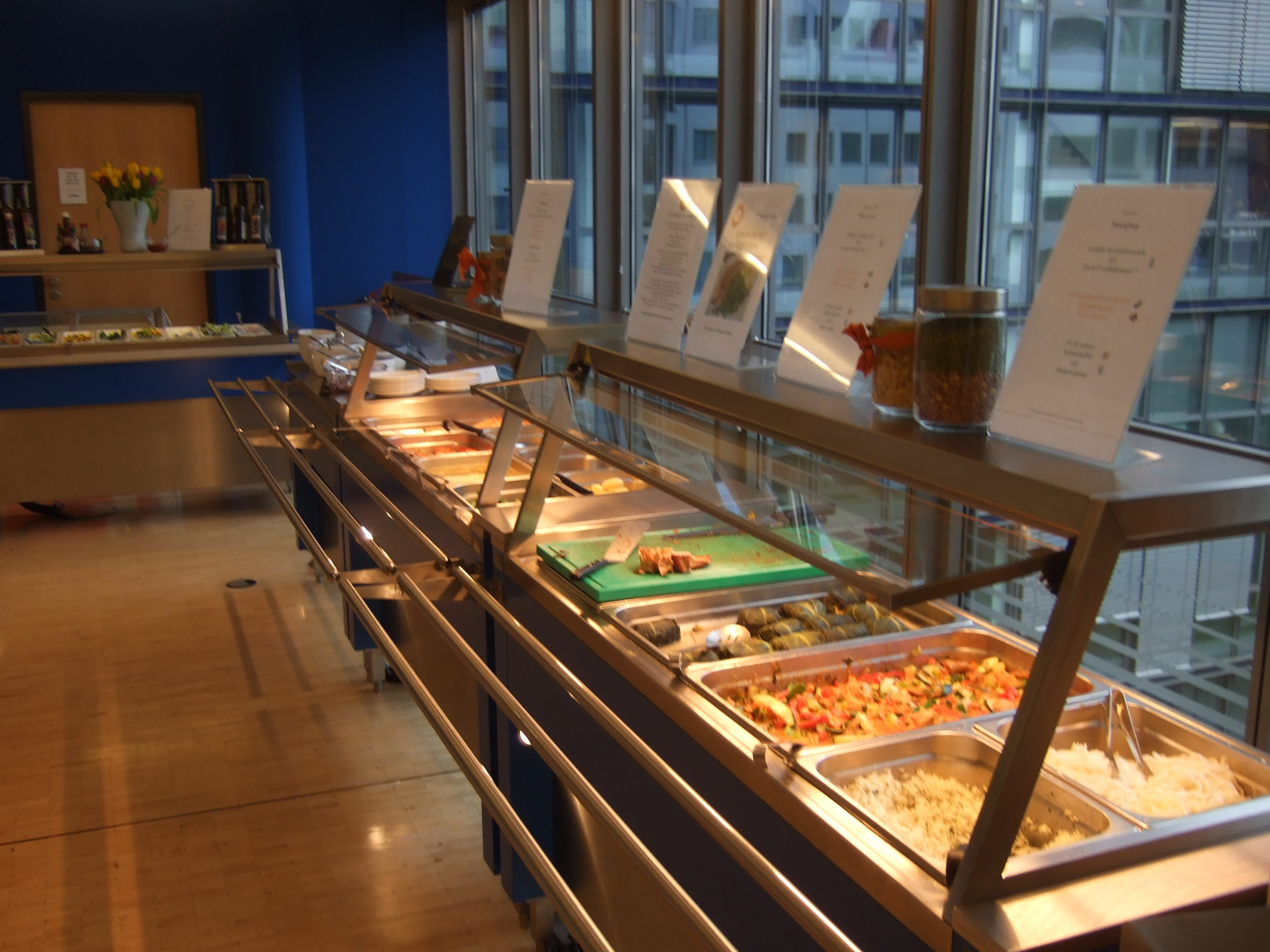 At the Google Office in ABC-Straße 19, 20354 Hamburg, Germany. The canteen.